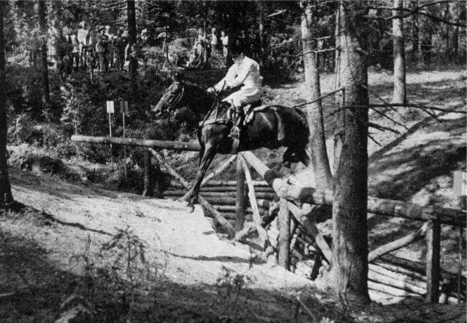 Albert Edwin Hill and Stella at the 1952 Summer Olympics in Helsinki.